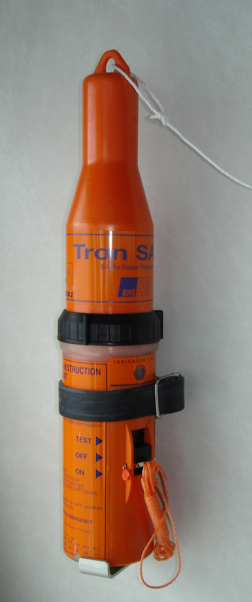 Photo taken by myself, Ulf Larsen on board the ferry Bastø 2, on November 11th 2005. The device is a SART - Search And Rescue radar Transponder, for use in emergencies - to locate liferafts by radar.